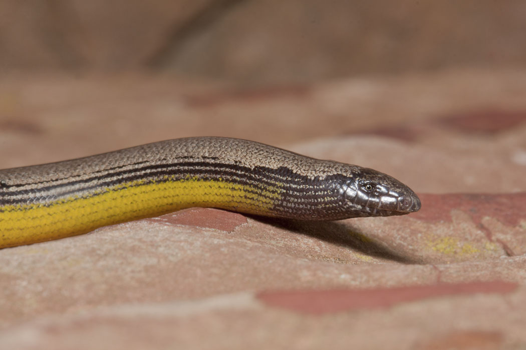 Anniella pulchra. Typically this lizard, which to the untrained eye looks like a very small snake, lives just below the surface of loose soil, sand or leaf litter. Found in Los Osos, CA.